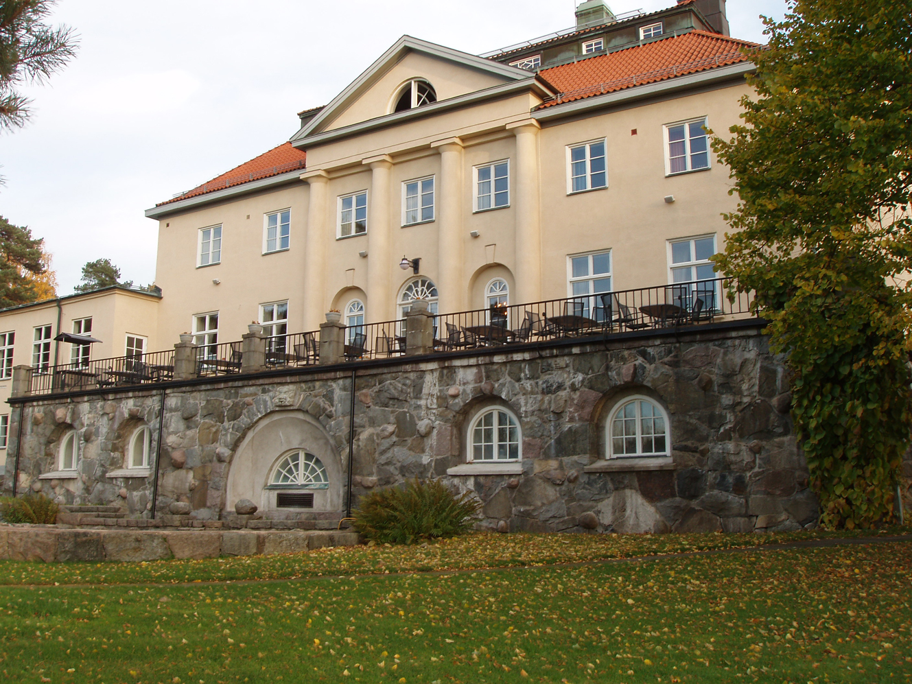 Villa Paulsro, Bosön, Lidingö, Sweden. Paul U. Bergström (PUB) private residence, Lidingö Sweden. Built around 1925. Today belongs to BOSÖN international atlets education center. Used as one of the conference buildings. The picture shows the Villa from the garden.